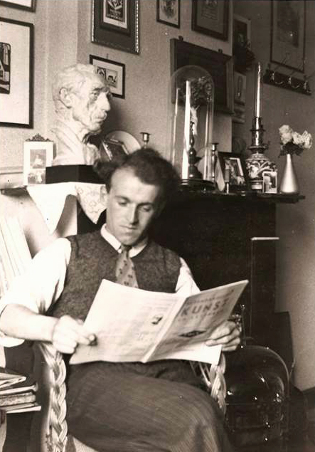 Belgian historian and folklorist Maurits Van Coppenolle (1910-1955)